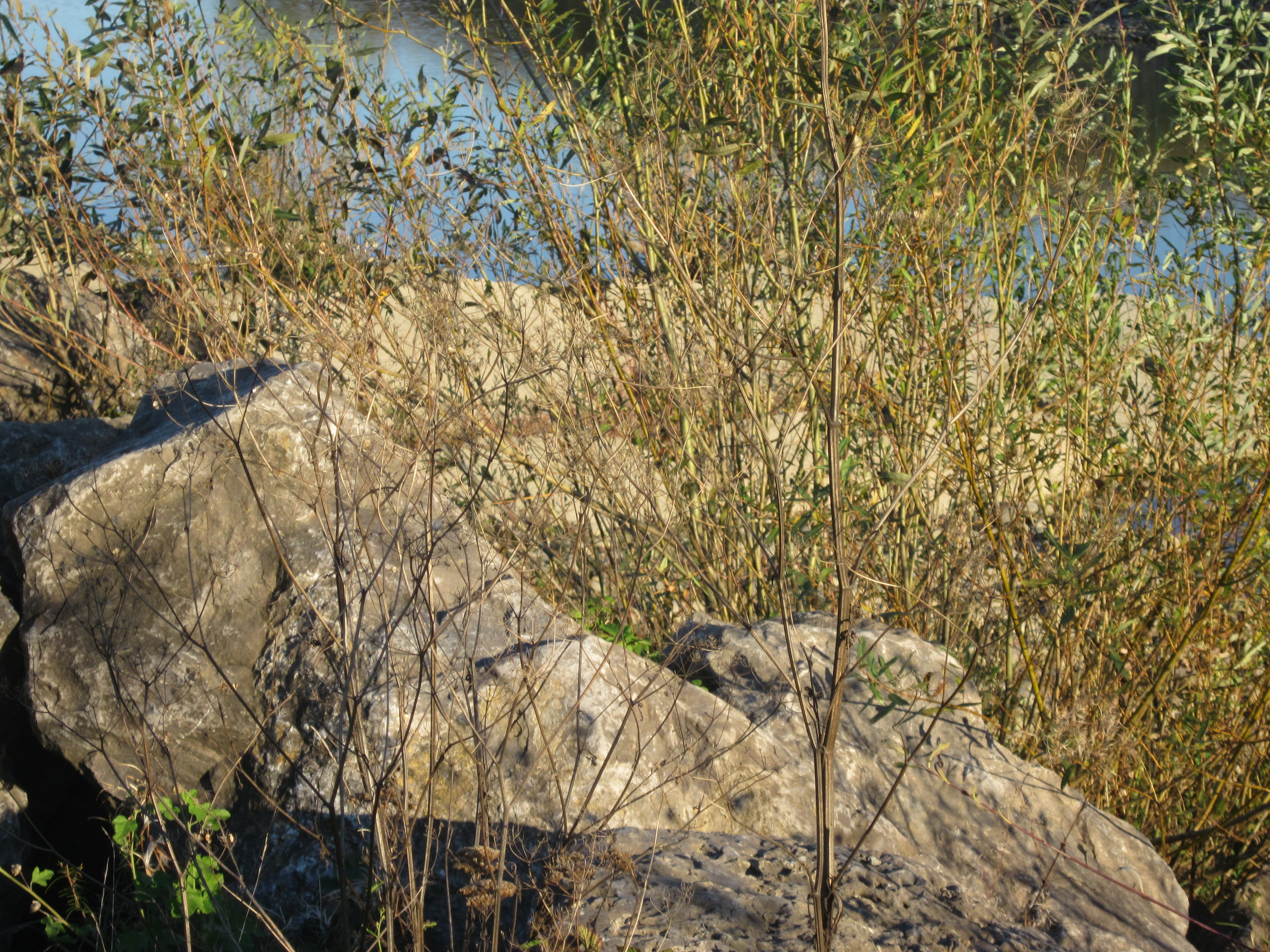 річка Луква біля села Комарів